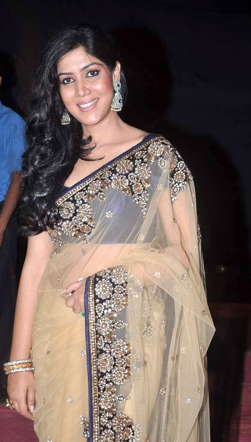 Sakshi Tanwar at Femina miss india.